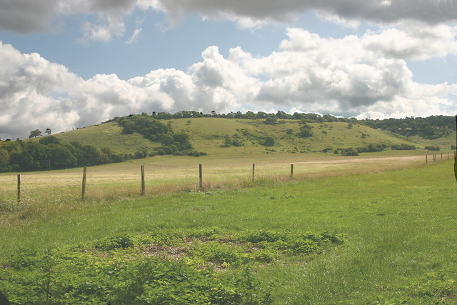 Bald Hill Taken from the Ridgeway National Trail. Bald Hill rises to around 250 metres.